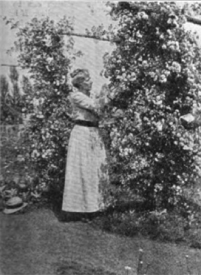 "The snapshot of Miss Lee, shown above, was taken in the garden of the School of Horticulture for Women, of which she is the head." The original article goes on to discuss the importance of the school's agricultural training for World War I.